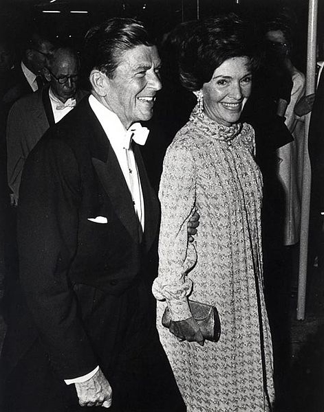 Governor Ronald Reagan and Nancy Reagan at the Governor's Inaugural Ball in Sacramento, California.